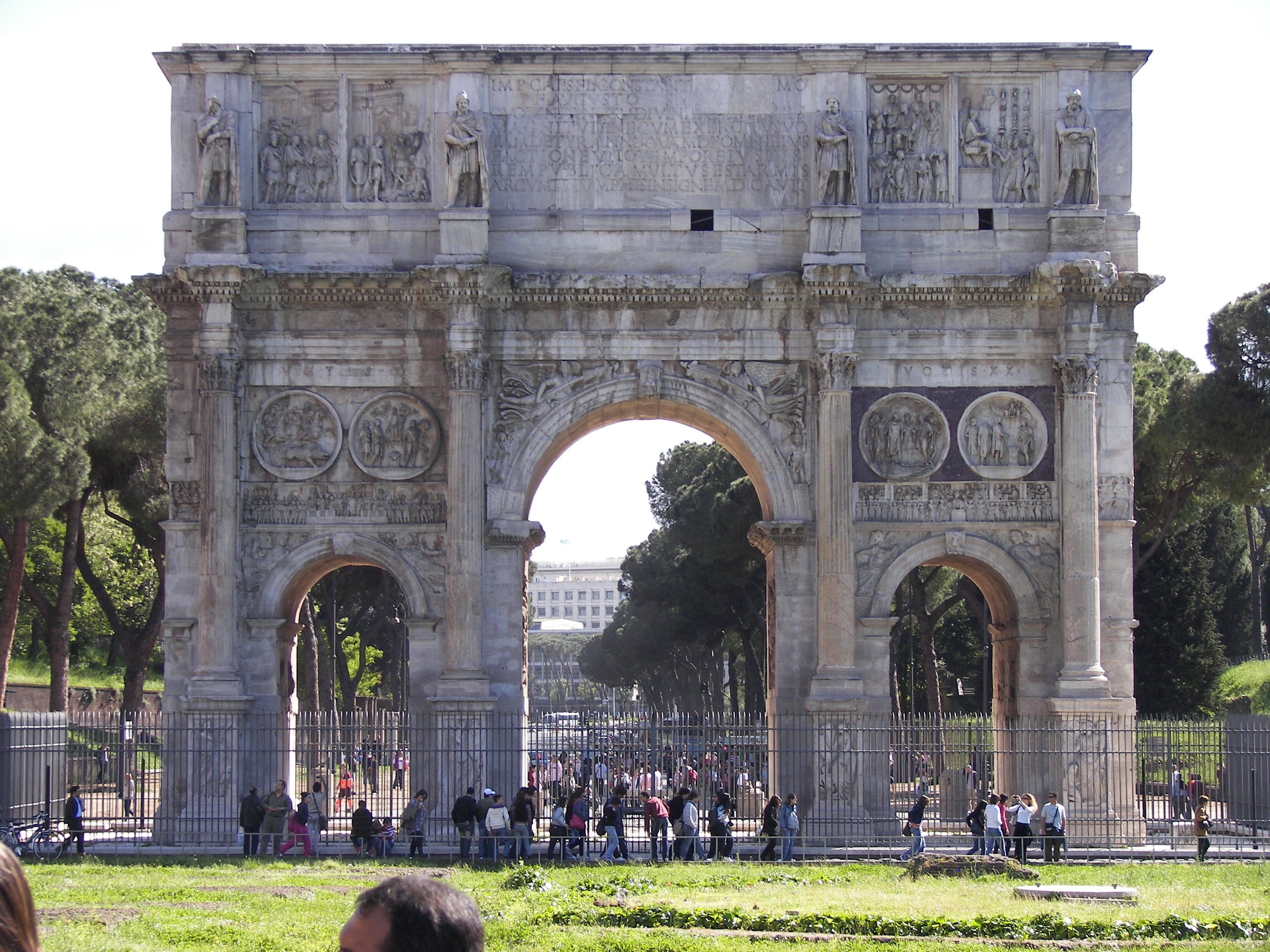 Arch of Constantine in Roma.